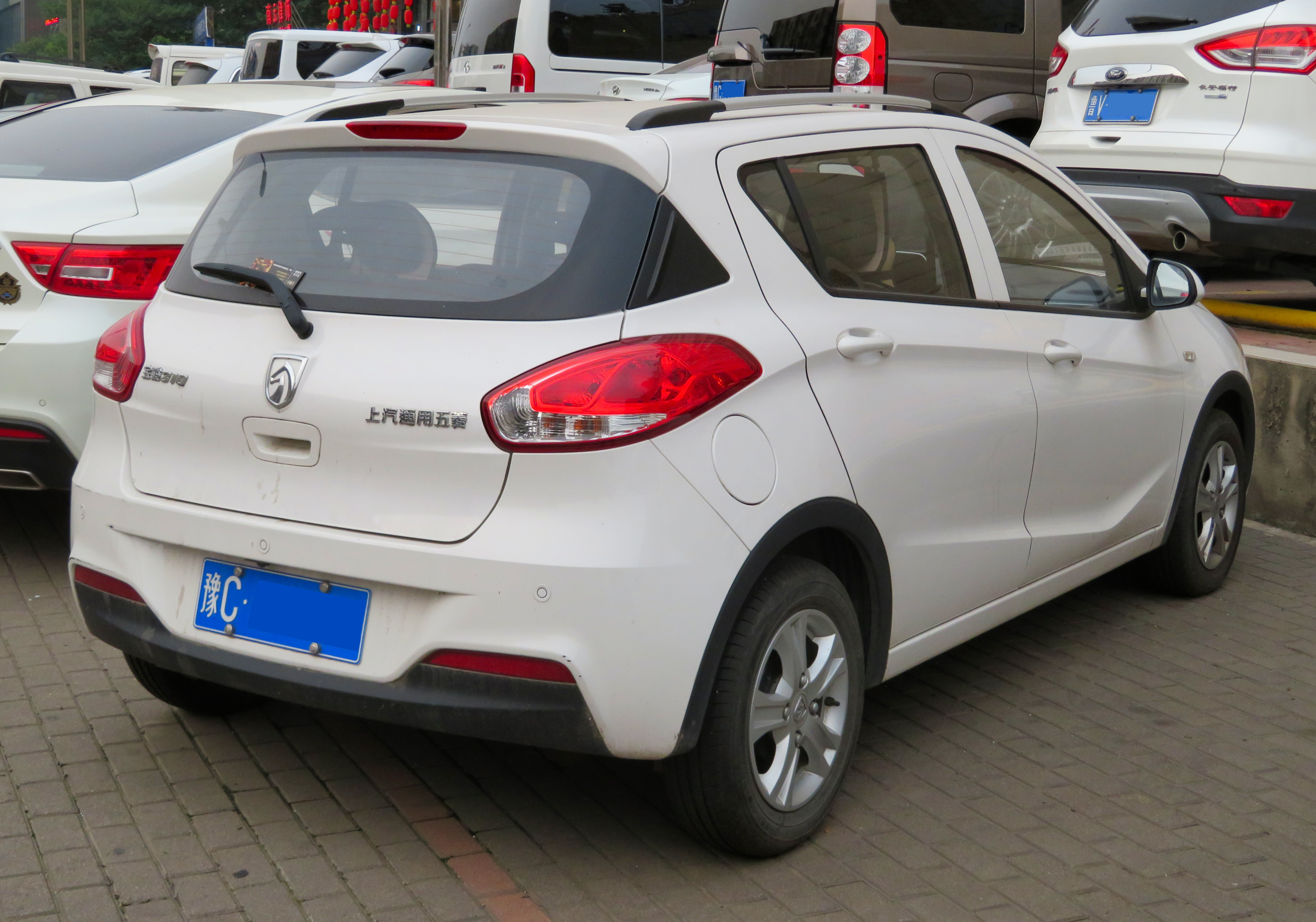 A 2017 Baojun 310 hatchback photographed in Luoyang, Henan province, China